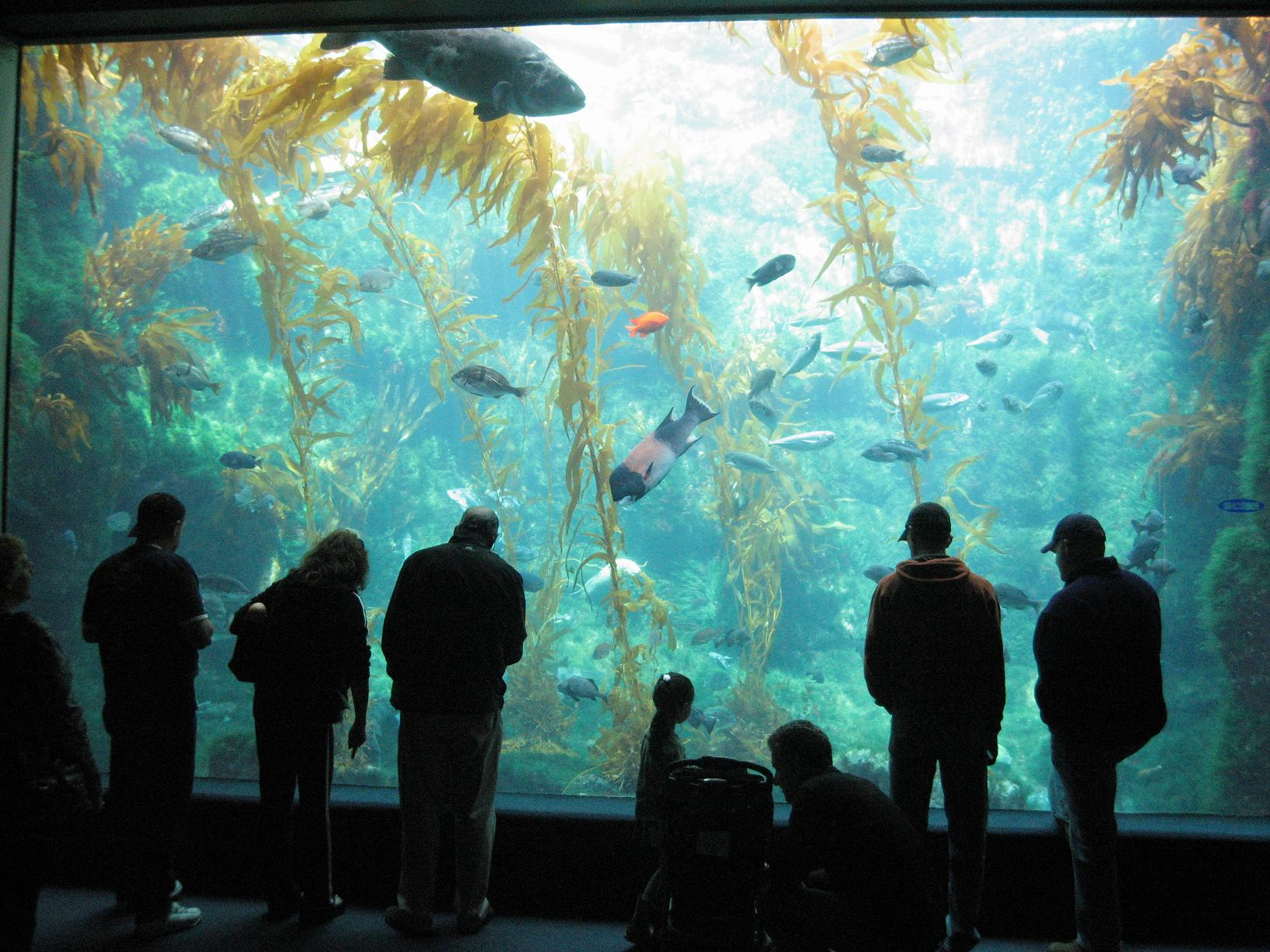 Jessica Crawford